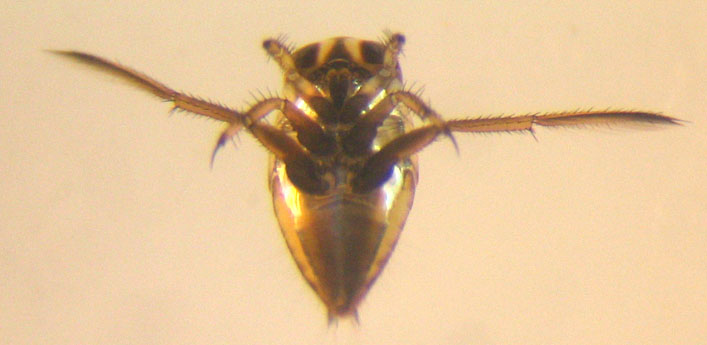 Juvenil backswimmer (family Notonectidae), 2-3 mm long. Found in a garden pond in Munich, Germany, in June 2007 and photographed through a binocular.